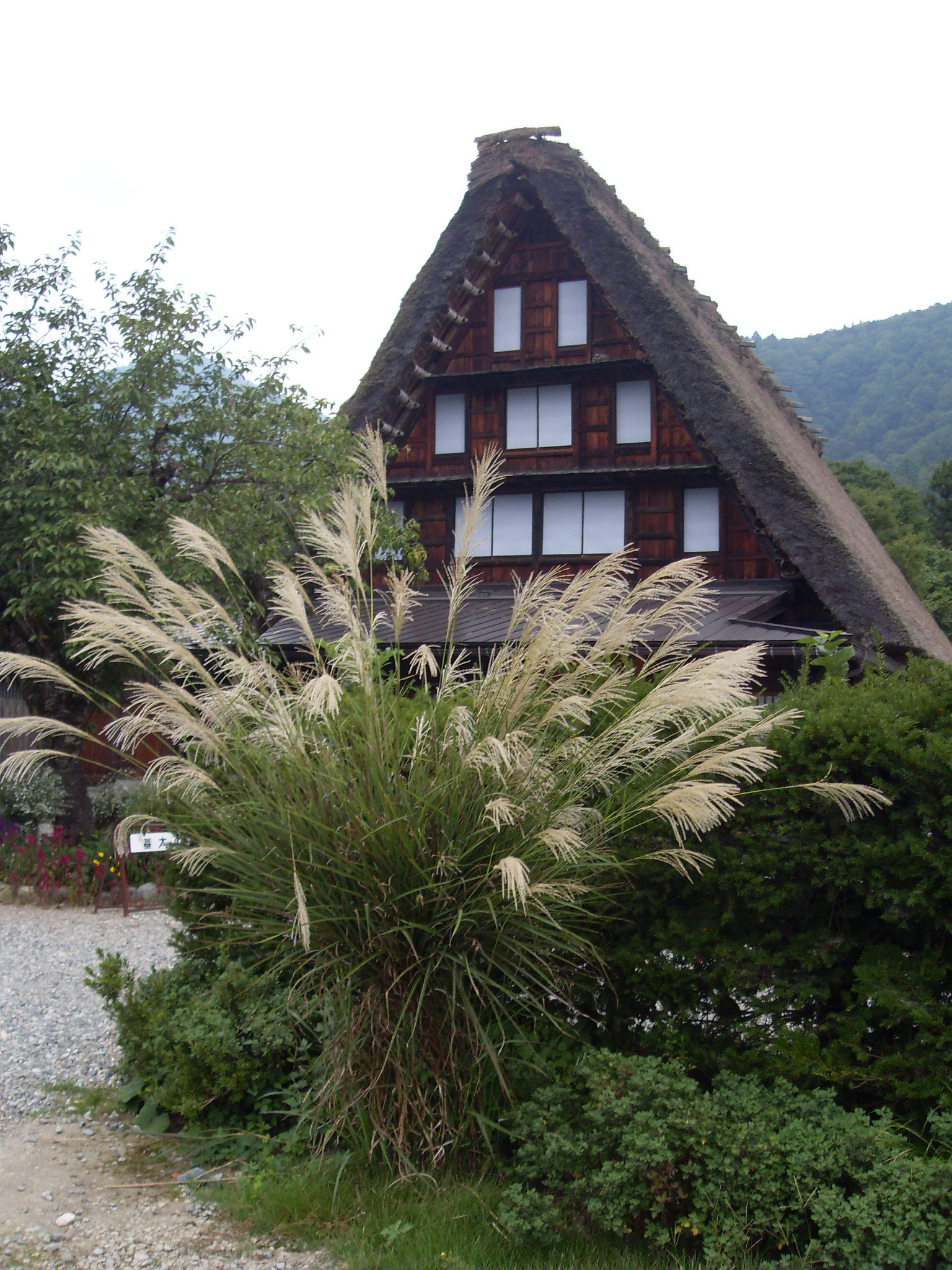 A house and susuki grass in Shirakawa-go, Japan